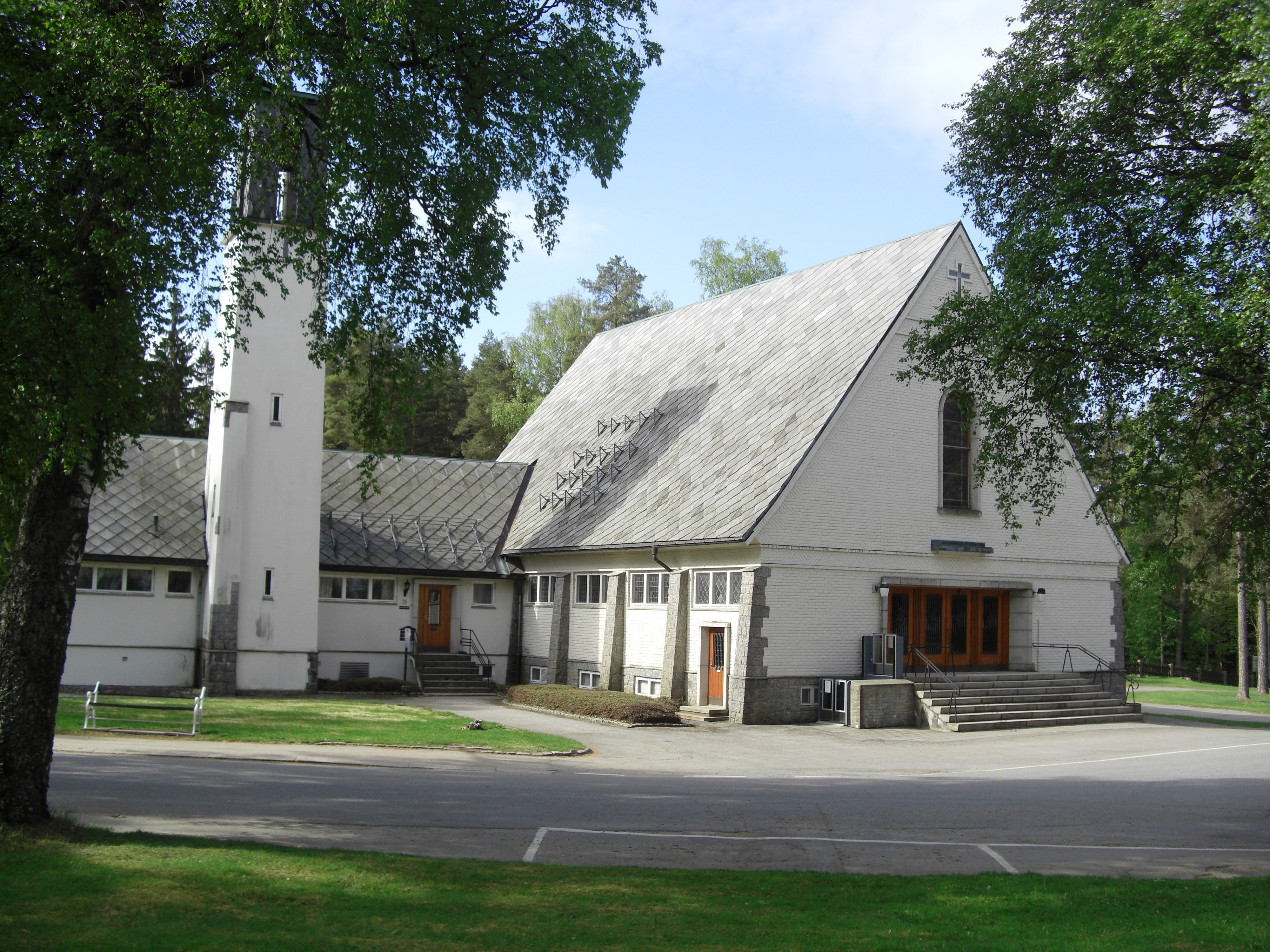 Askim chapel